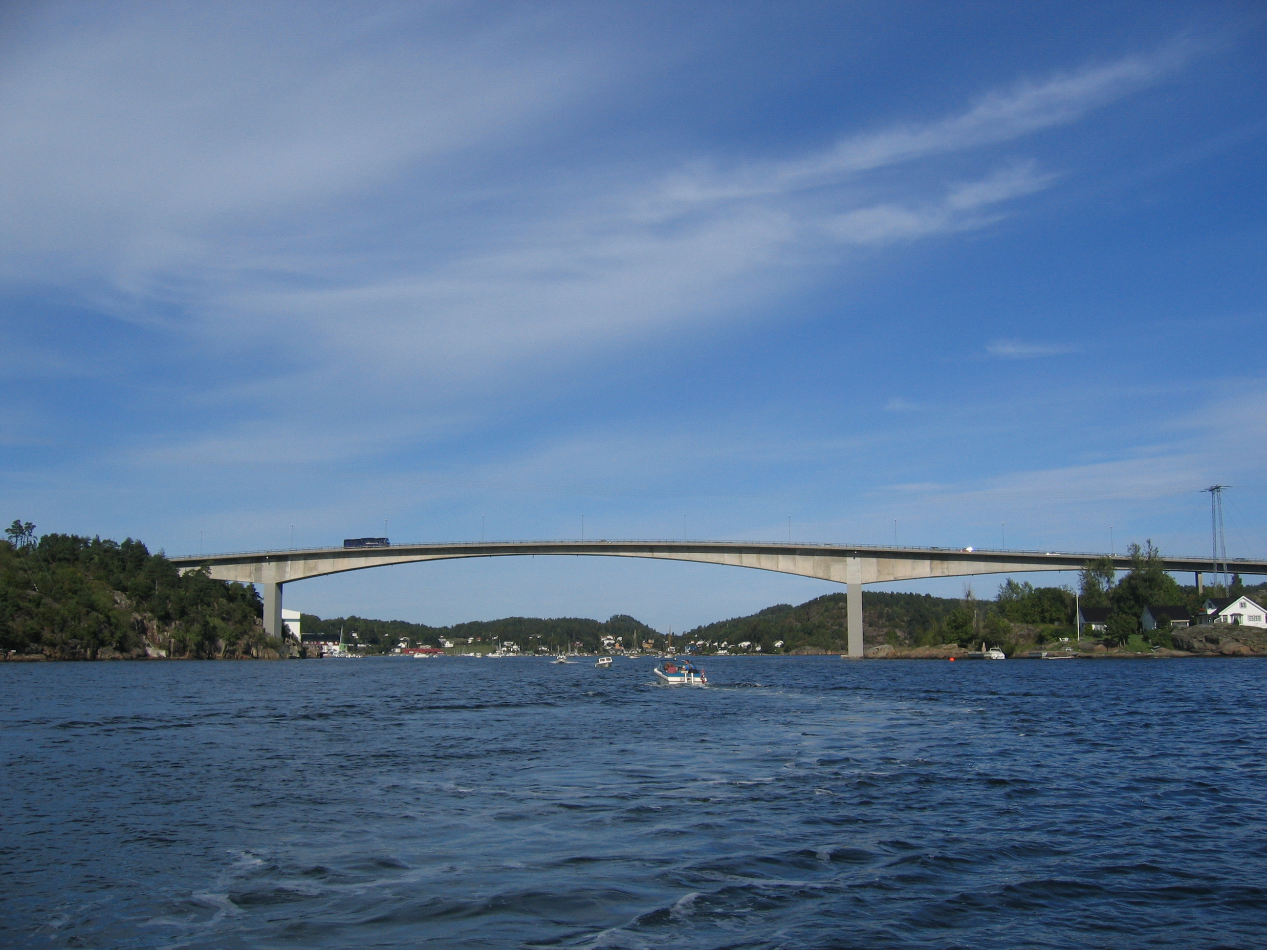 Tjøme, Vrengen bro, bridge, 2006.